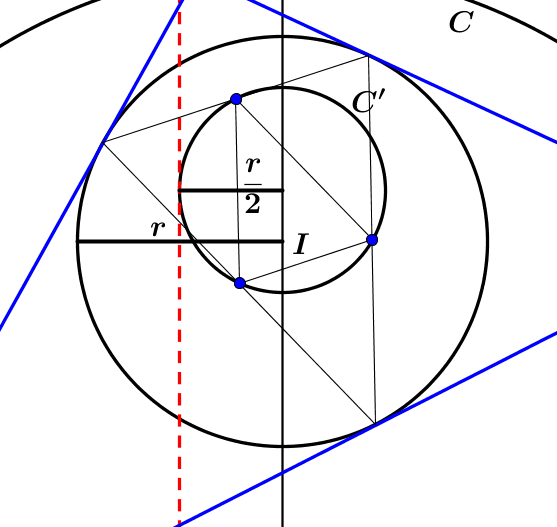 The proof uses inversive_geometry.